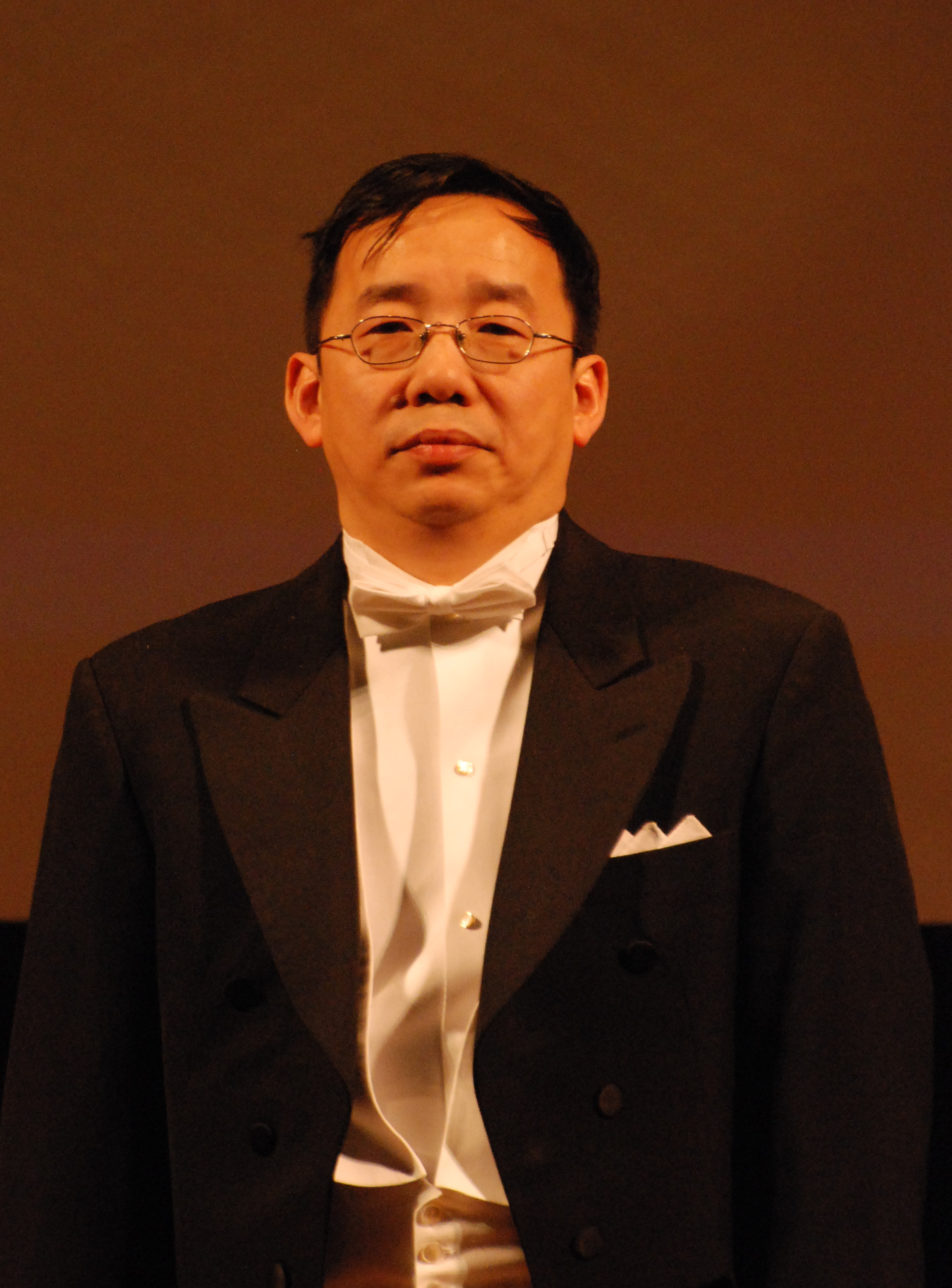 Ceremonial Meeting of the Royal Swedish Academy of Sciences: award ceremony of the Göran Gustafsson prize 2010: Yi Luo